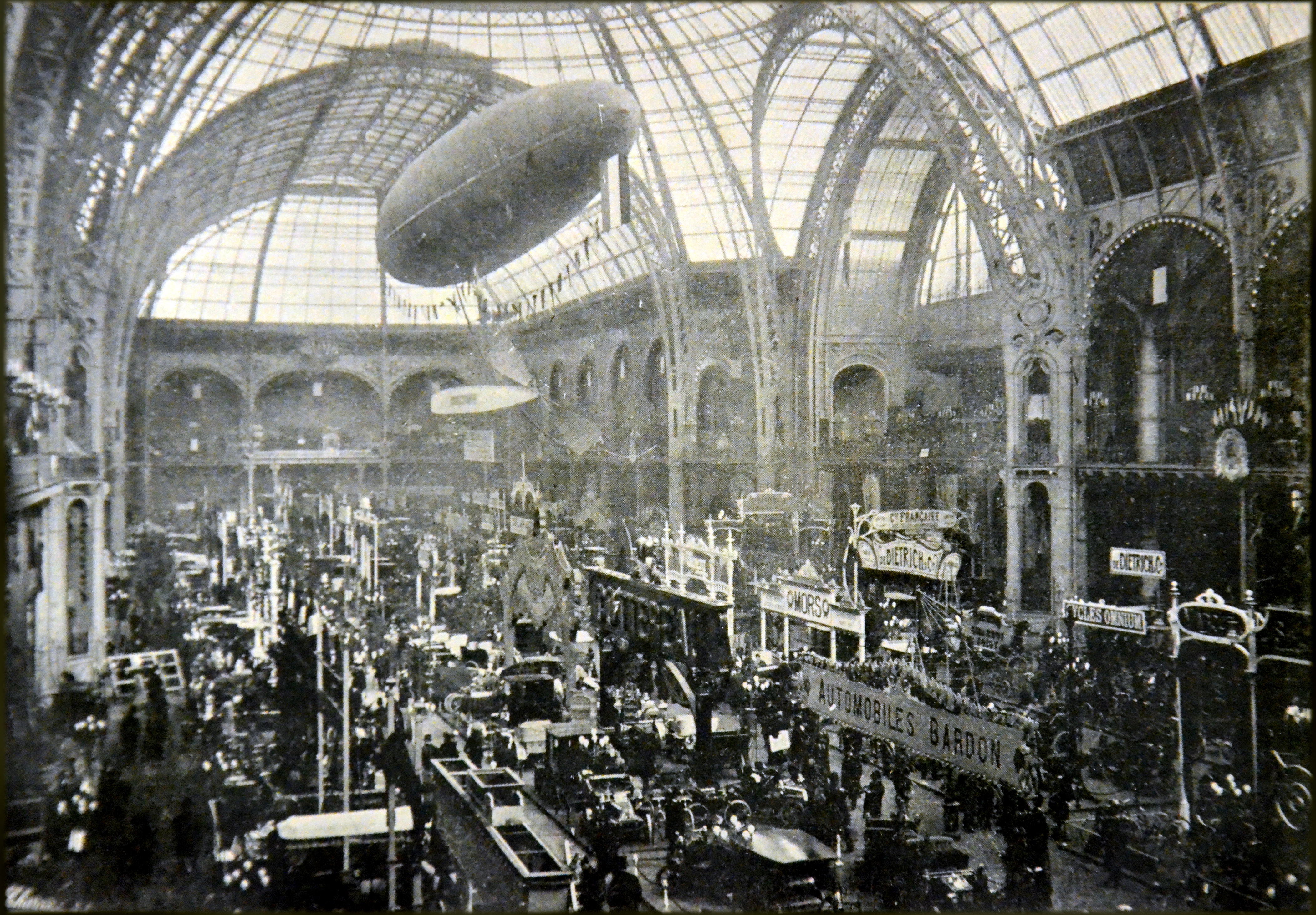 Photo (made by Valerian Gribayédoff) captioned "General view of the Motor Show at the Grand Palais" from an article entitled "Social Life," published in the "Revue illustrée" (bound volume 1902).